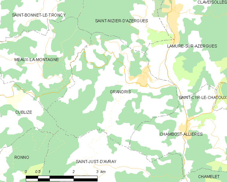 Map of French municipality